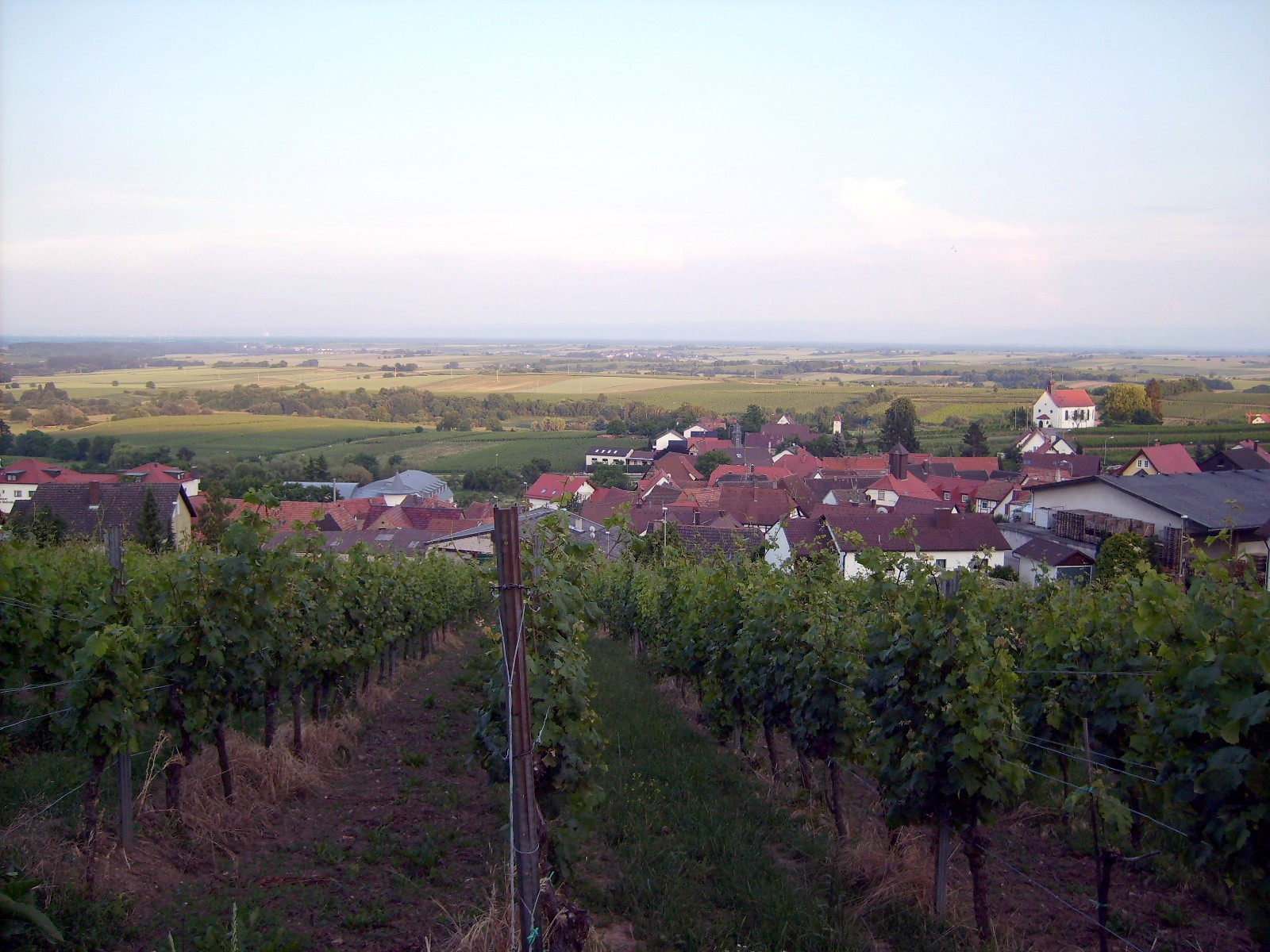 View of Gleiszellen (Southern Palatinate, Germany) from Blidenfeldstraße